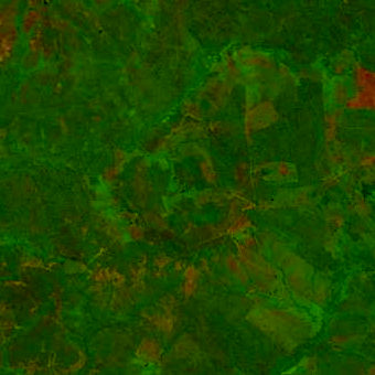 Riachão Ring (center), an impact structure in Brazil, South America. Image acquired 6 May, 2017.